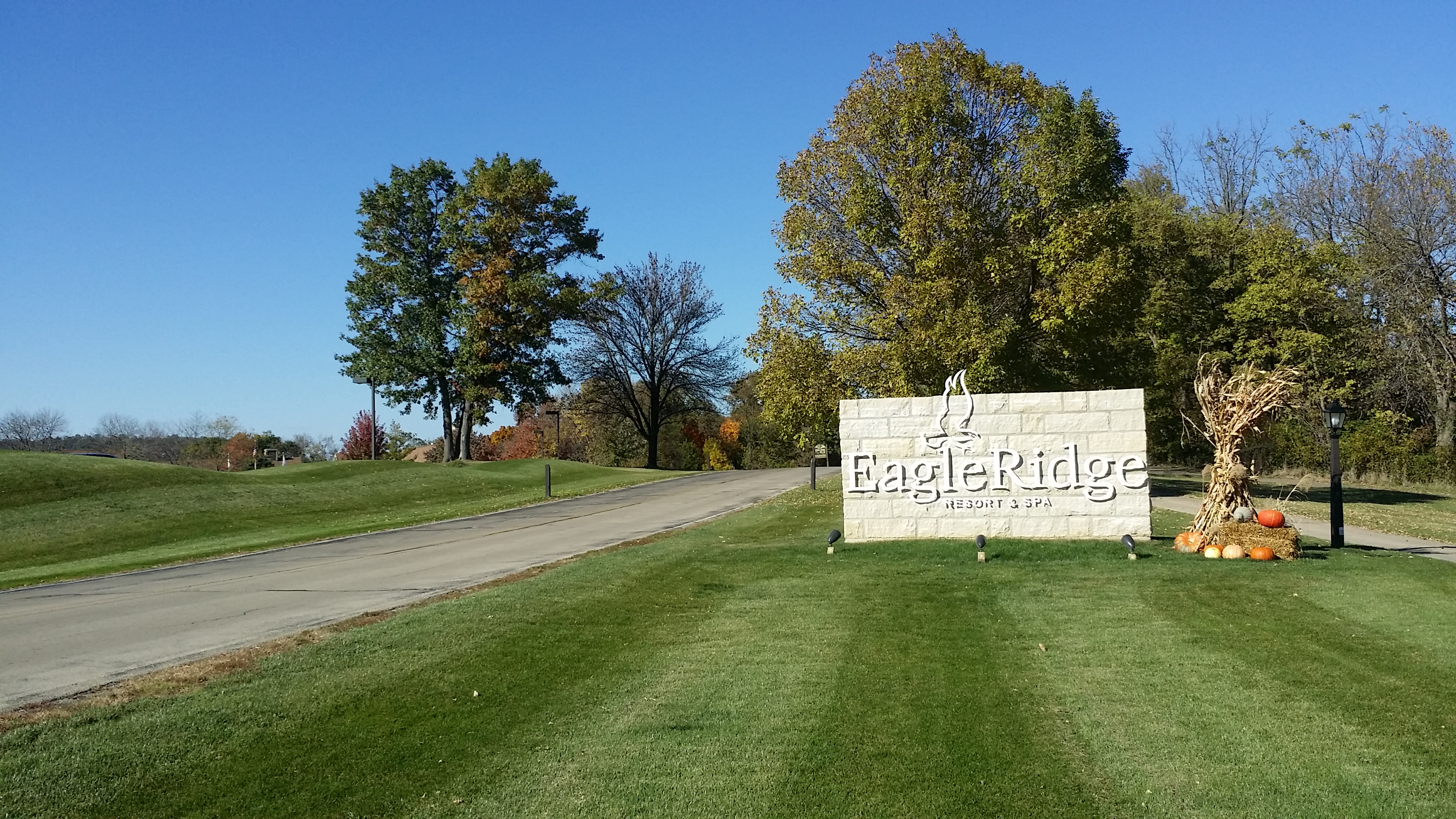 Eagle Ridge Resort near Galena, Illinois